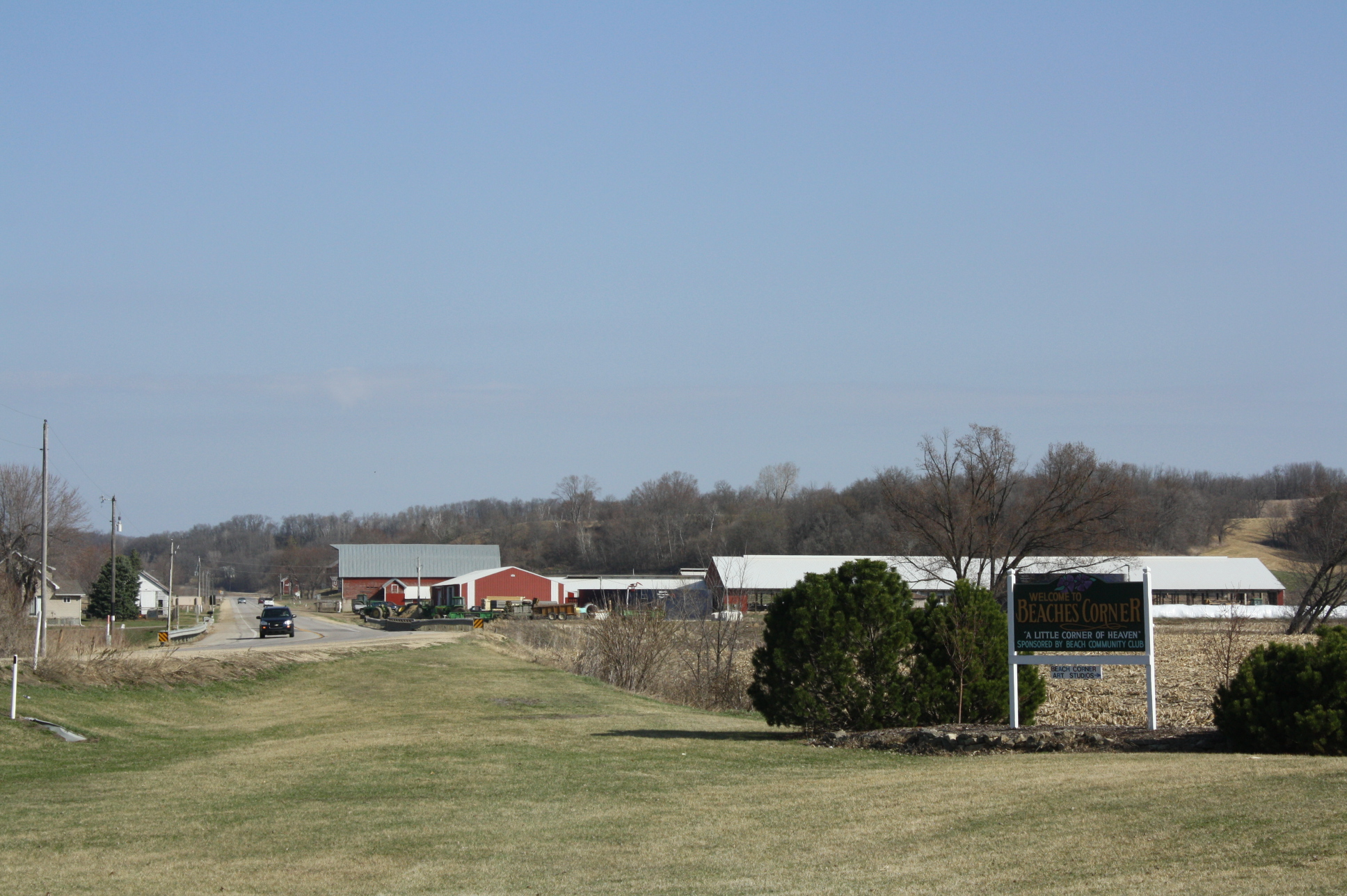 Looking north in Beaches Corners, Wisconsin along U.S. Route 53 .